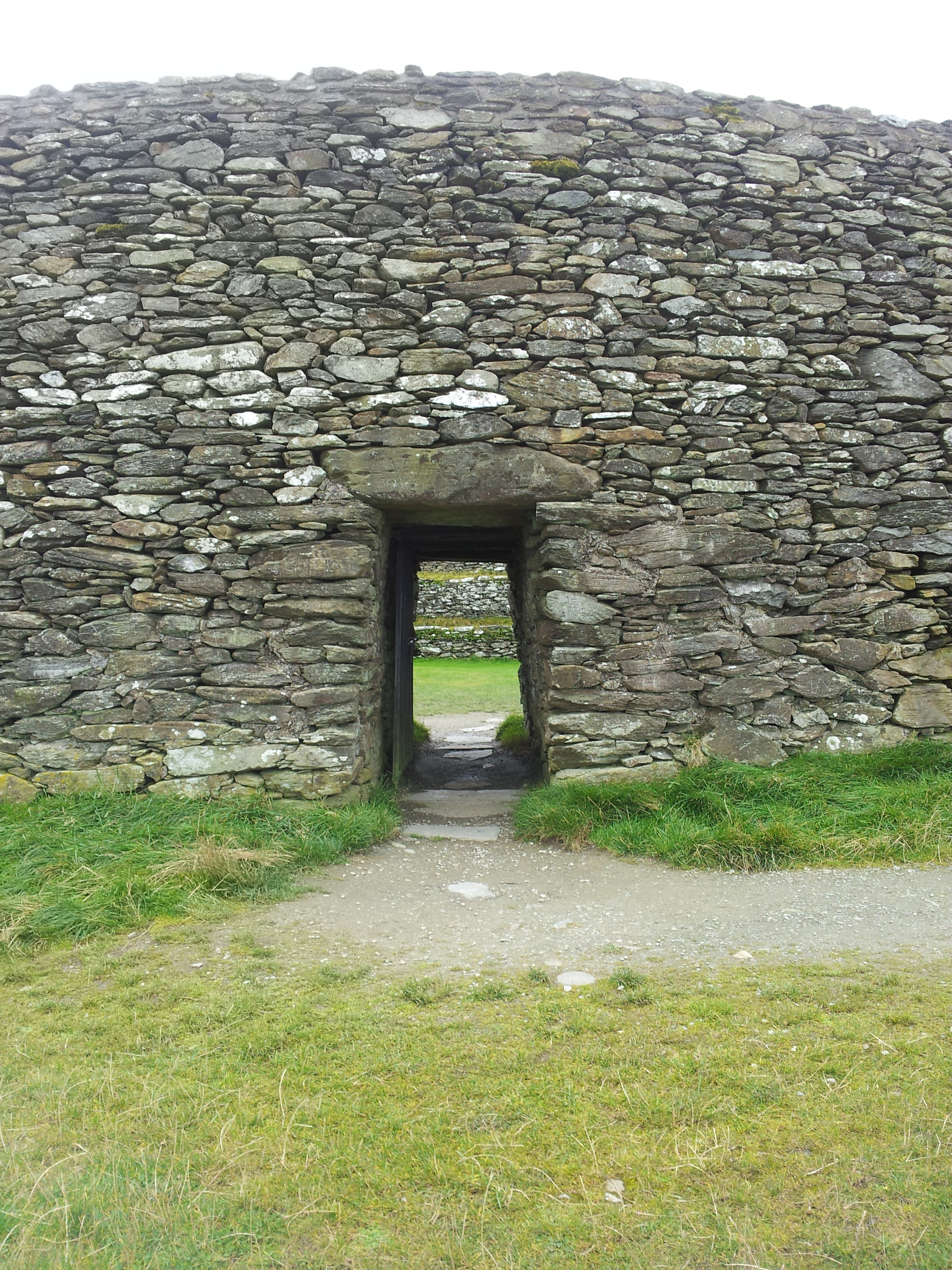 Grianan of Aileach